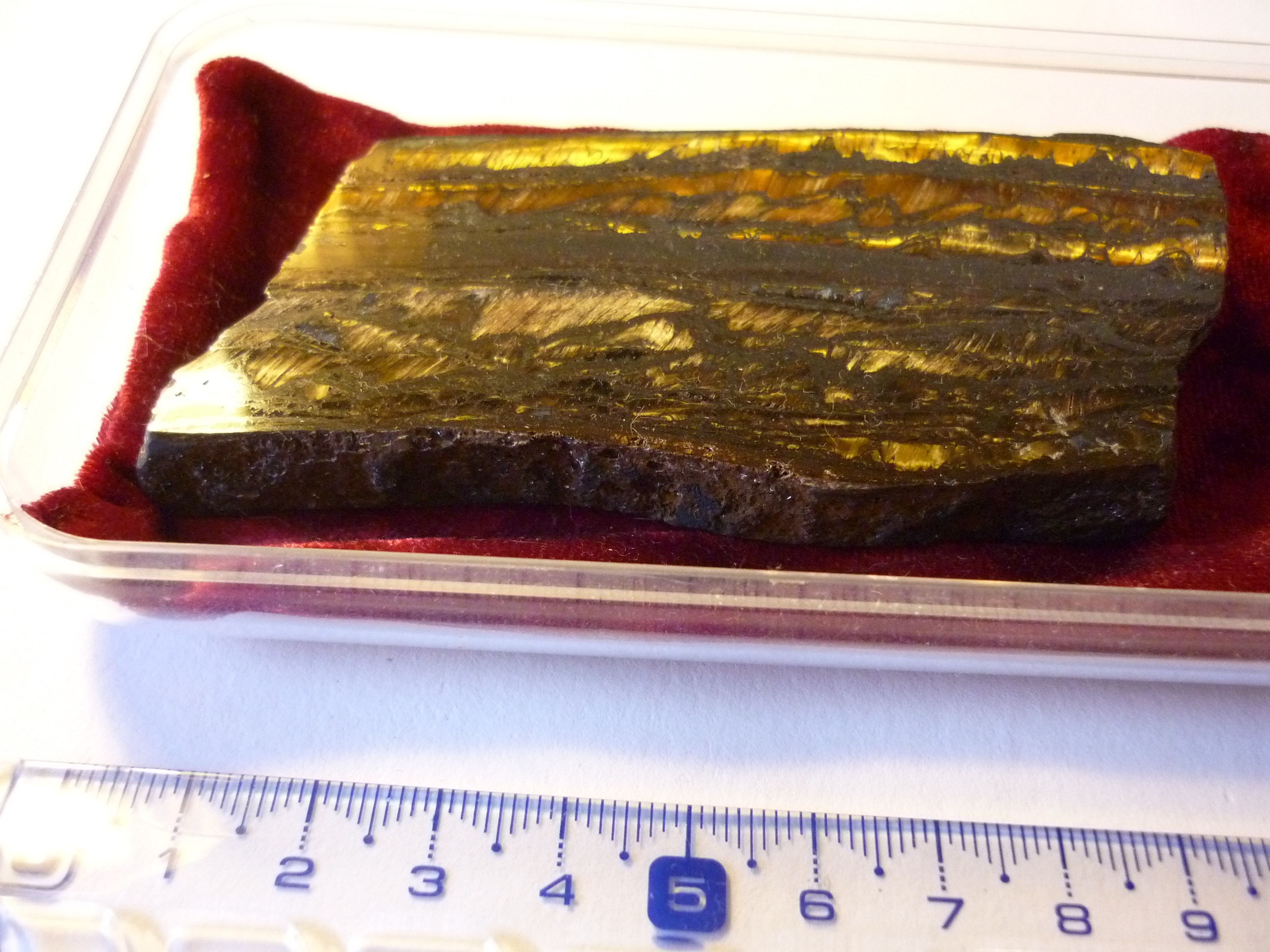 it's mineral called jaspilite, sometimes described "banded iron formation" it comes from Australia